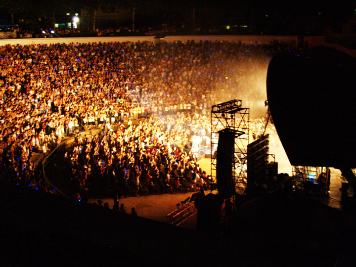 MBC FM4U Summer music festival at Amphitheater in Hanyang University